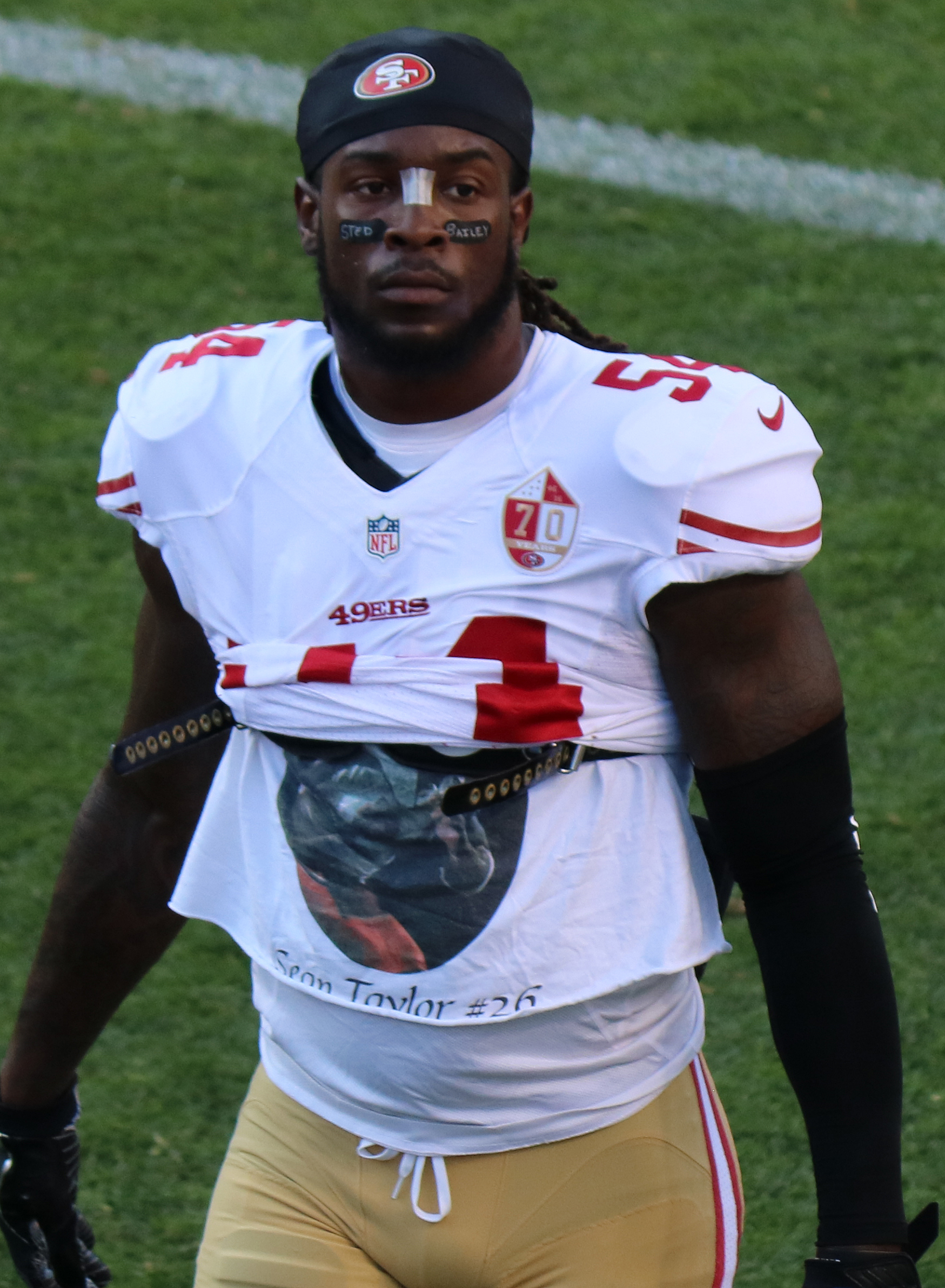 Ray-Ray Armstrong, a player on the National Football League.